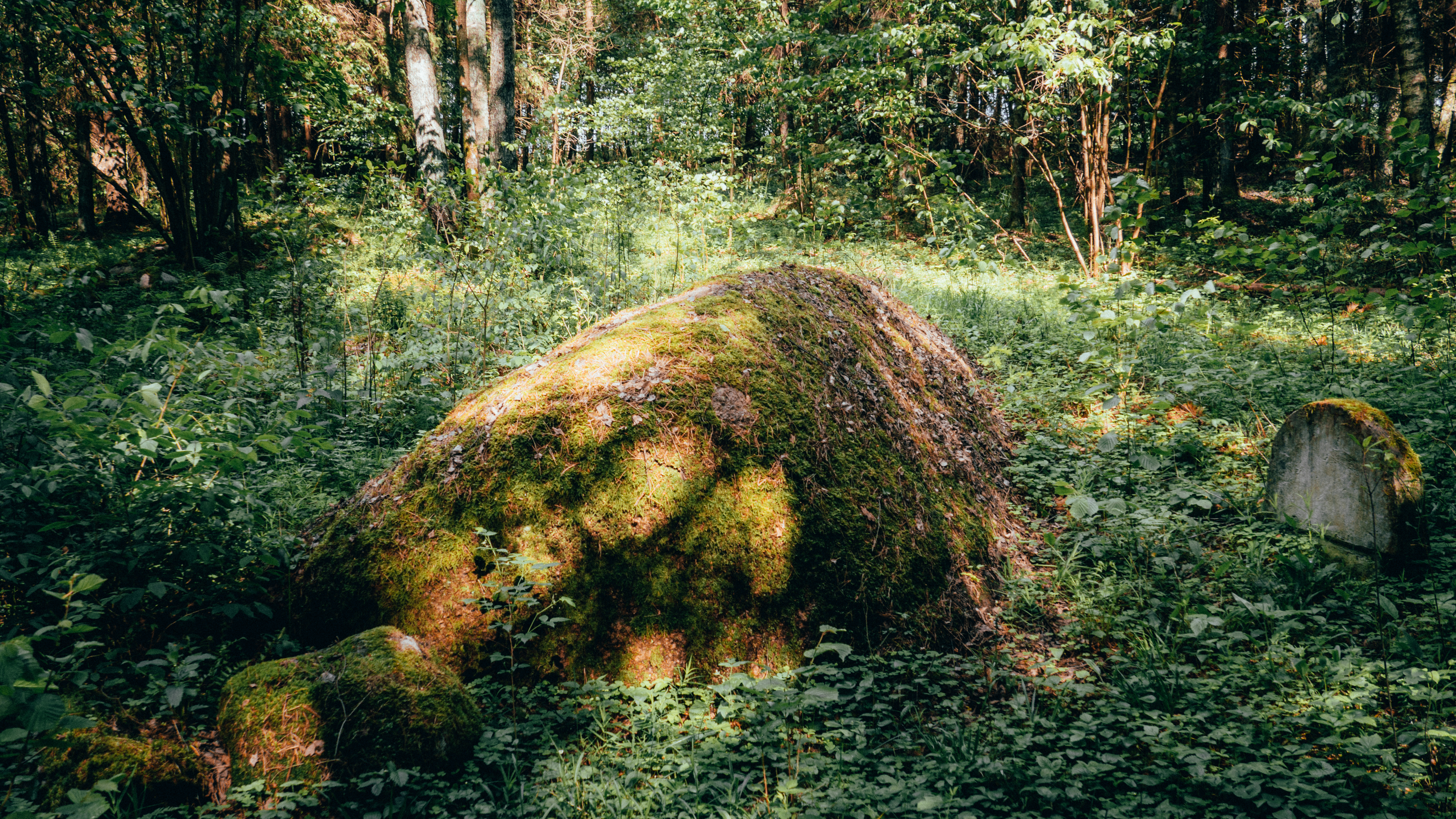 Asanaŭski boulder in Smarhon district of Belarus is a natural monument.